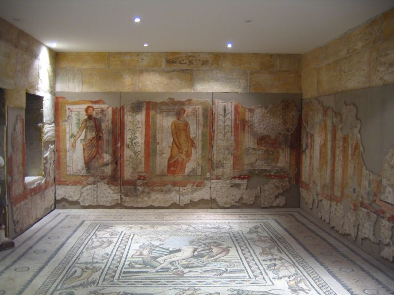 Wall painting in Zeugma